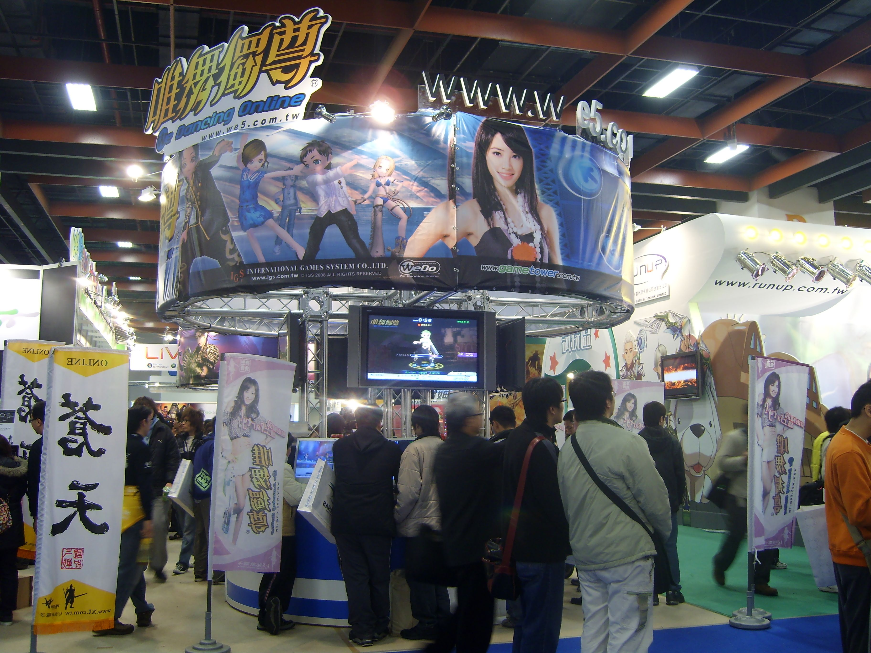 2008 Taipei Game Show: IGS showcased We Dancing Online.